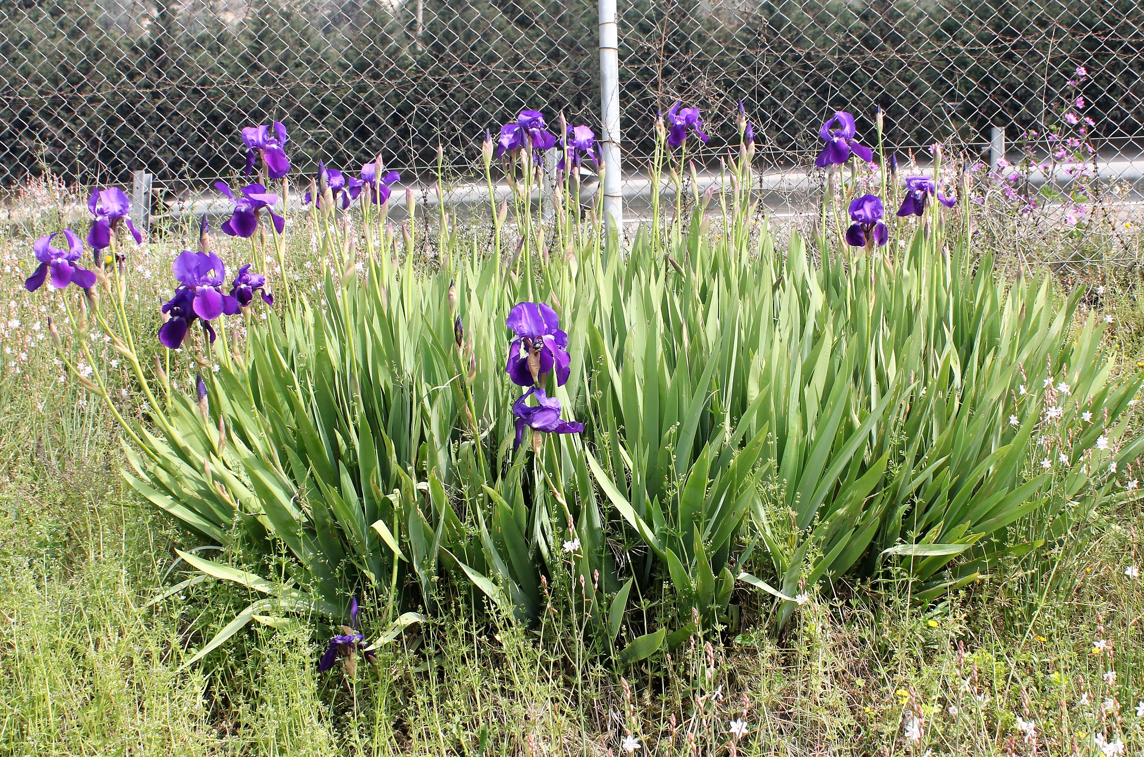 Iris × germanica general